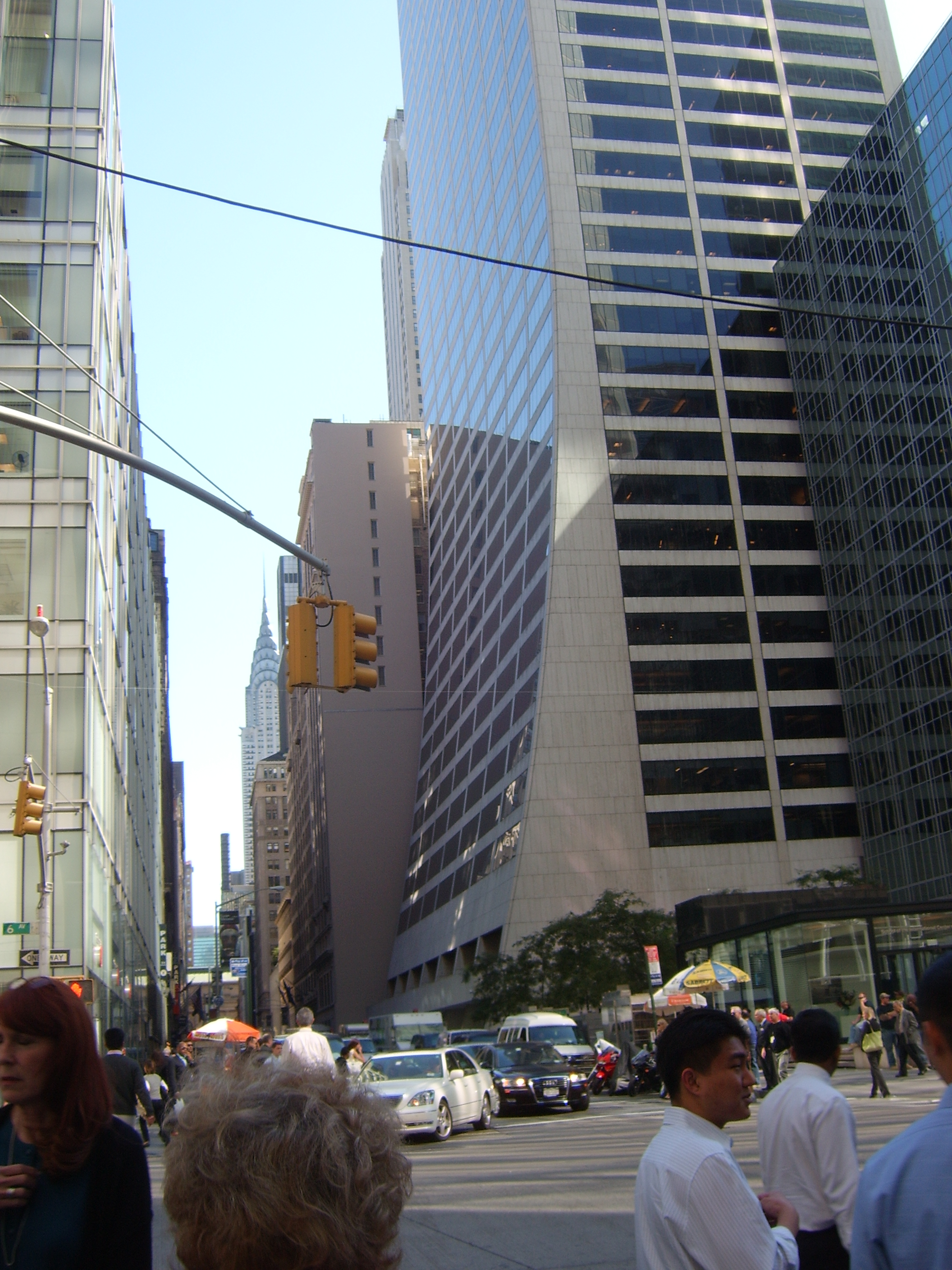 Grace Building from 43d and 6th, Manhattan, New York City